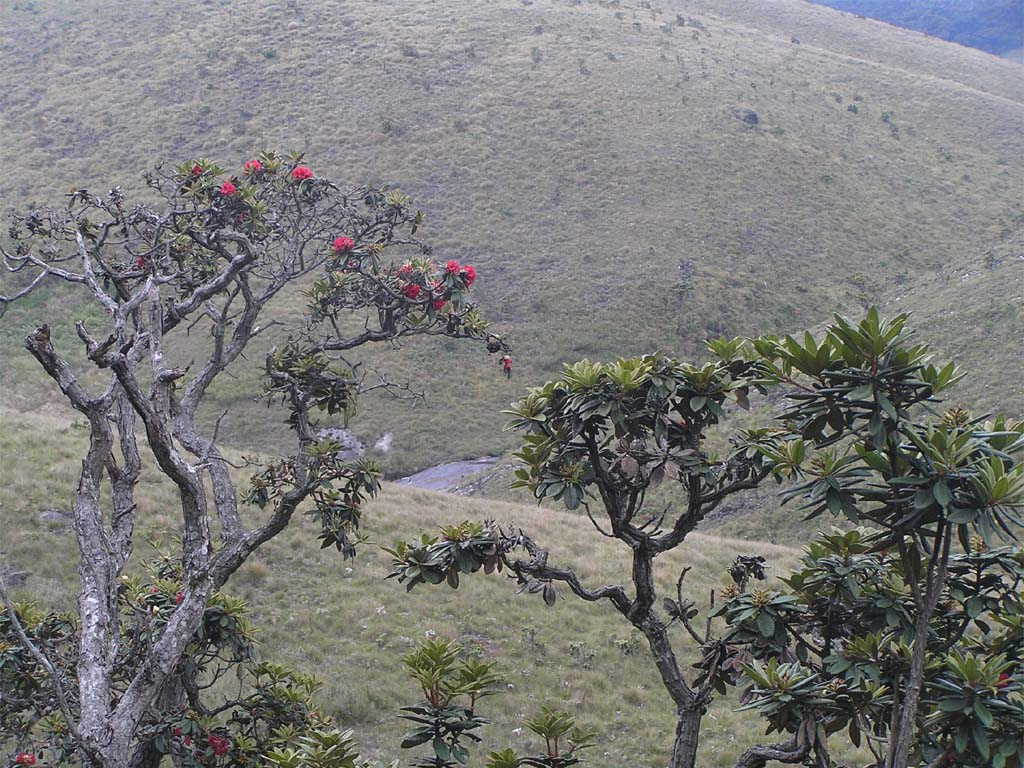 endamic srilanken tree in hortain plains